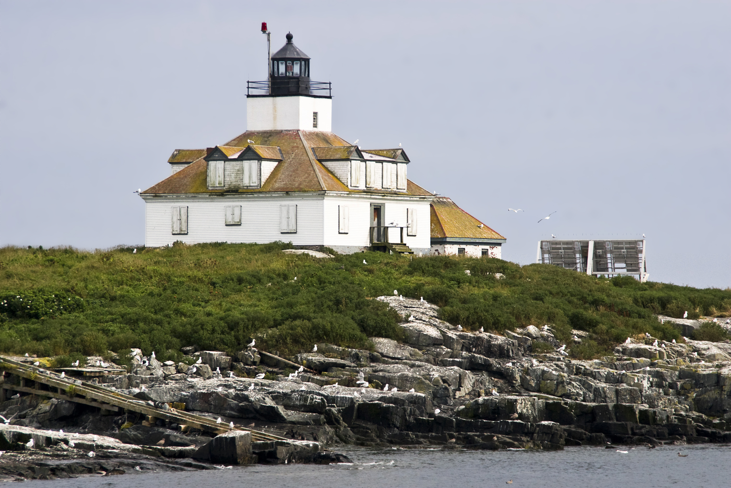 Egg Rock Light, located on Frenchman Bay, Maine, USA.